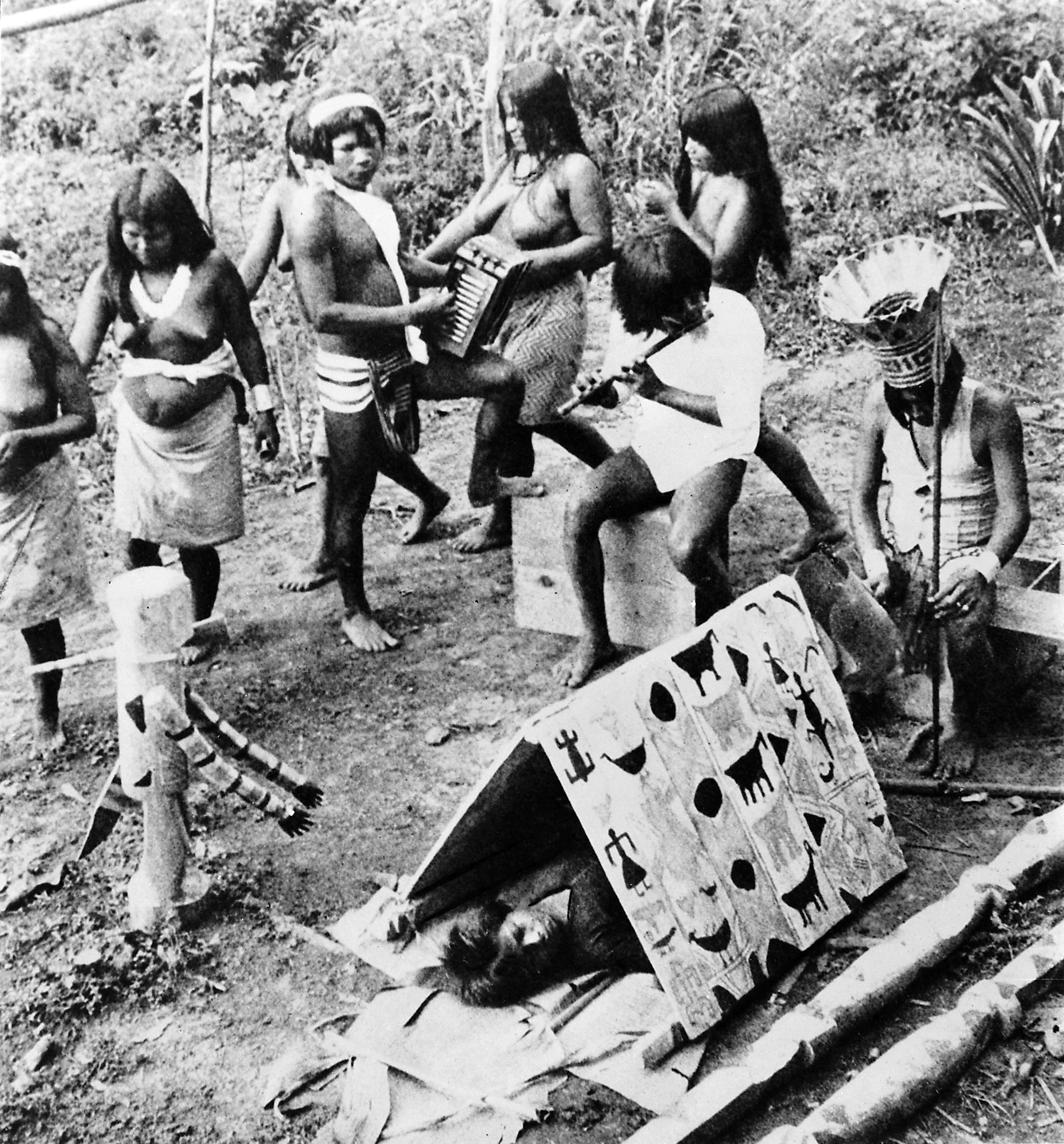 A)Choco Indian Medicine man muttering incantations and B)A Choco boy about to be treated by medicine man. Panama Wellcome Images Keywords: indigenous medicine and culture; Magic; non-european medicine; Ethnography